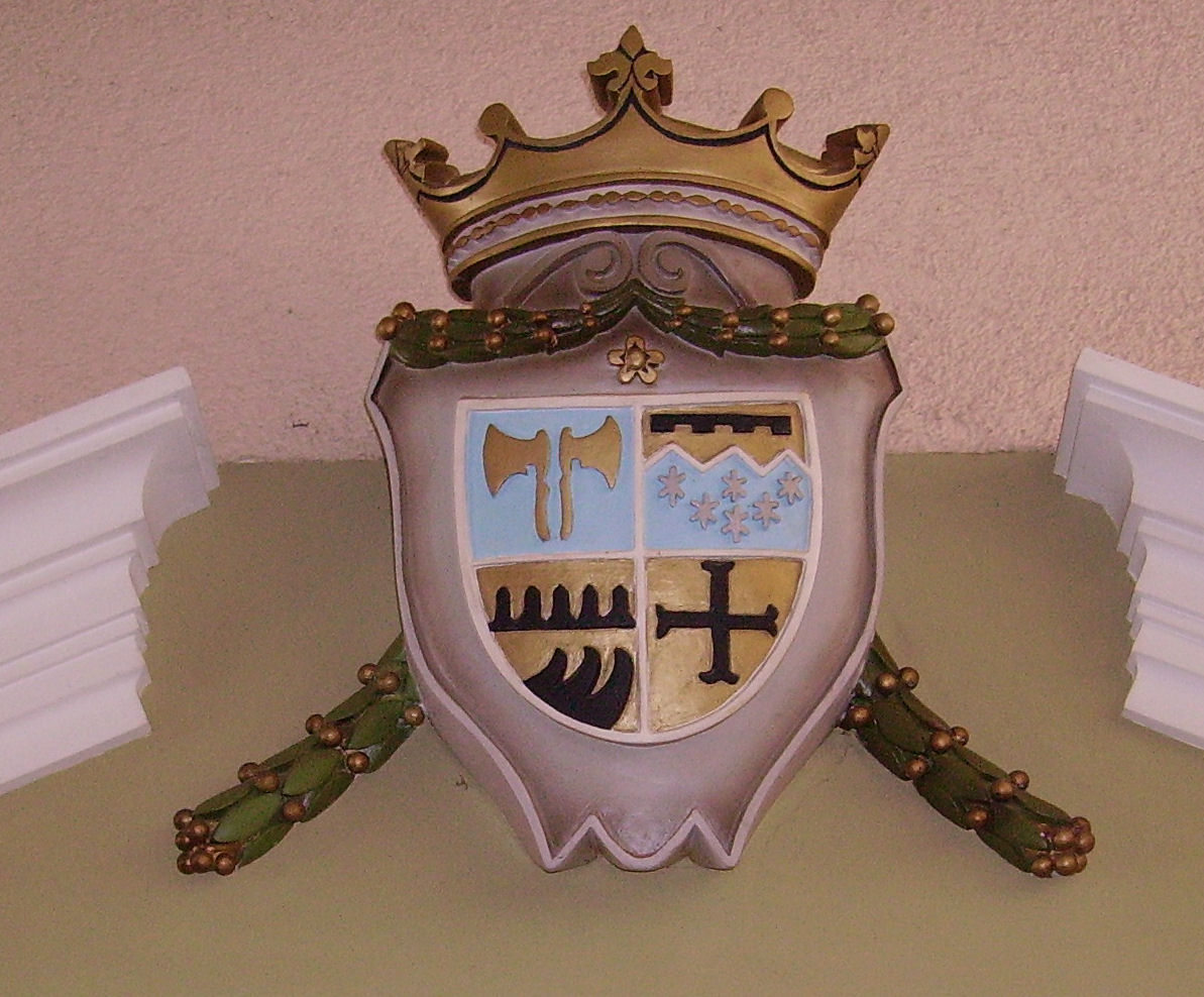 view of Maudach castle in Ludwigshafen, Germany